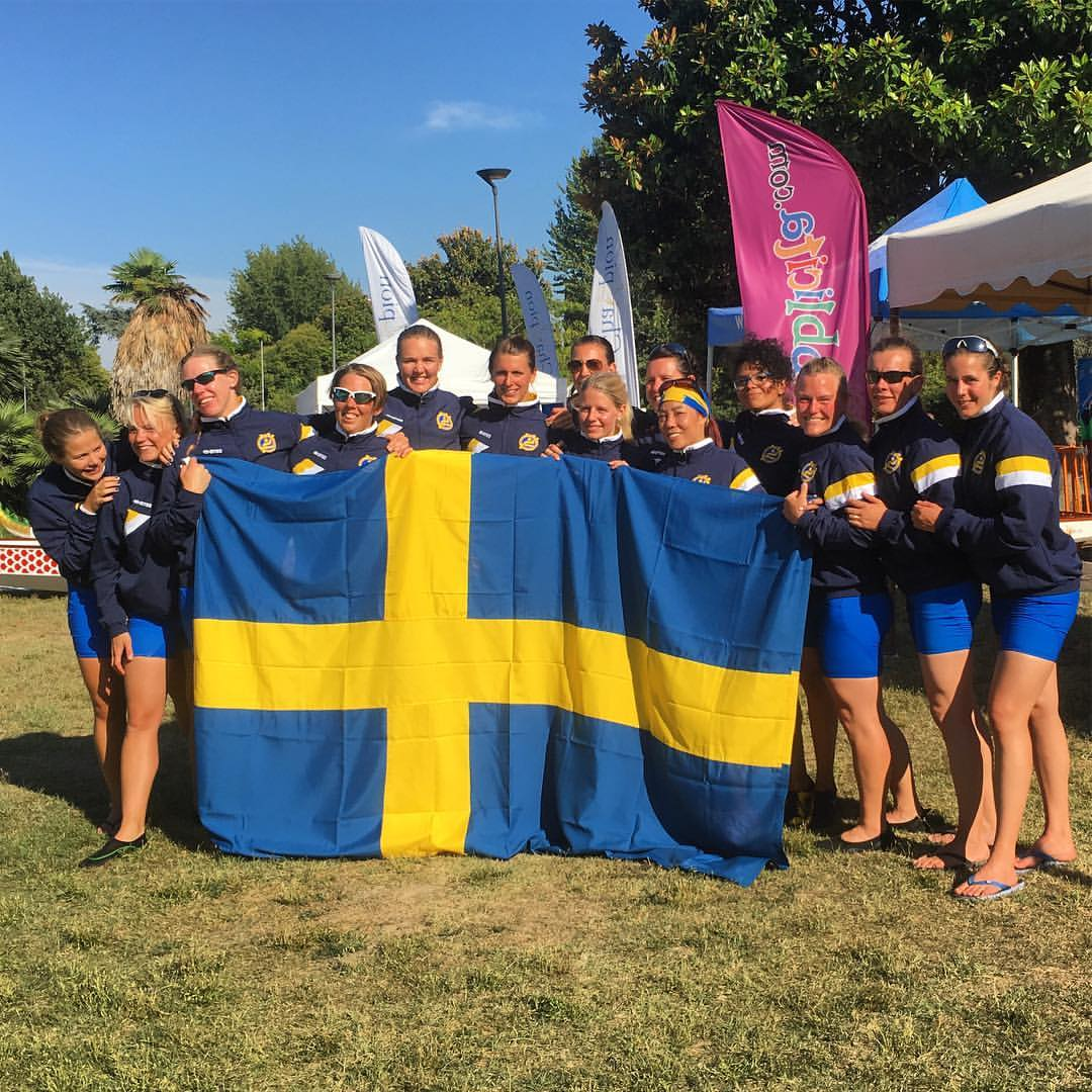 (European Champions in Dragon Boat Racing 2016, 500 meter, Swedish women small boat.)